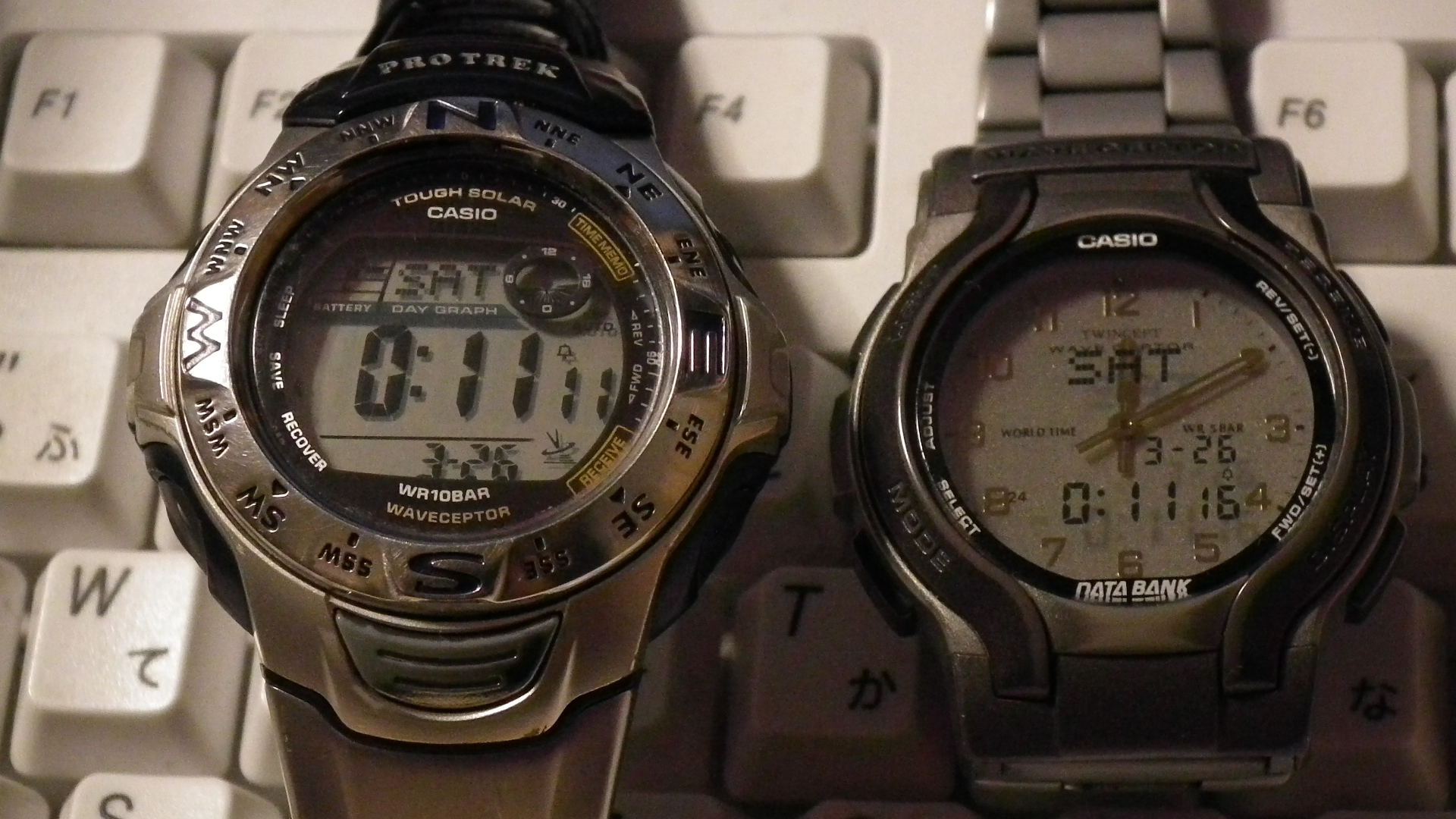 A radio watch two weeks after the 40KHz standard radio wave was suspended due to the Fukushima Daiichi nuclear accident. The clock that receives only the radio waves from the Fukushima station (pictured right) is off by 5 seconds.